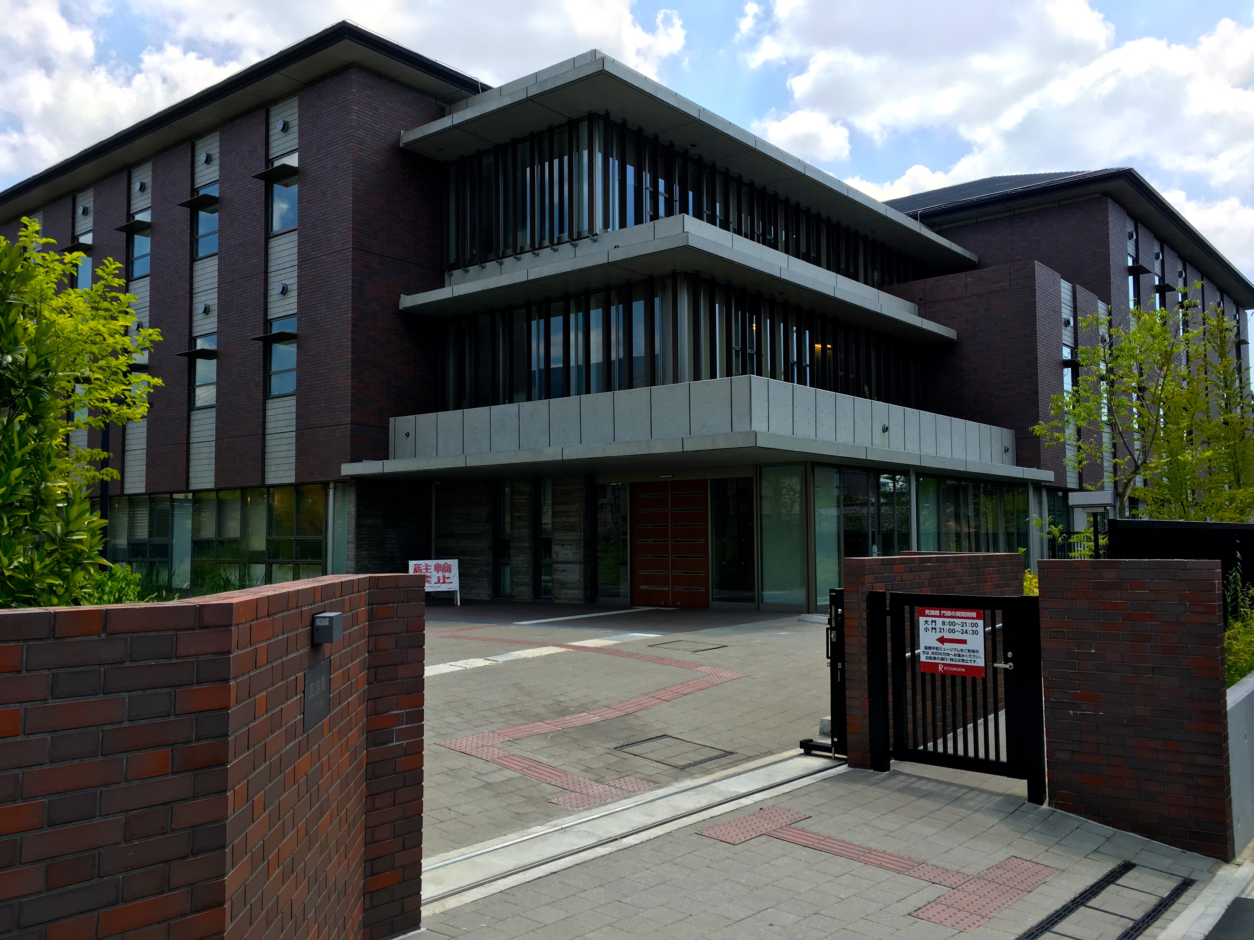 Kyuronkan Hall at Kinugasa Campus of Ritsumeikan University in Kyoto, Japan